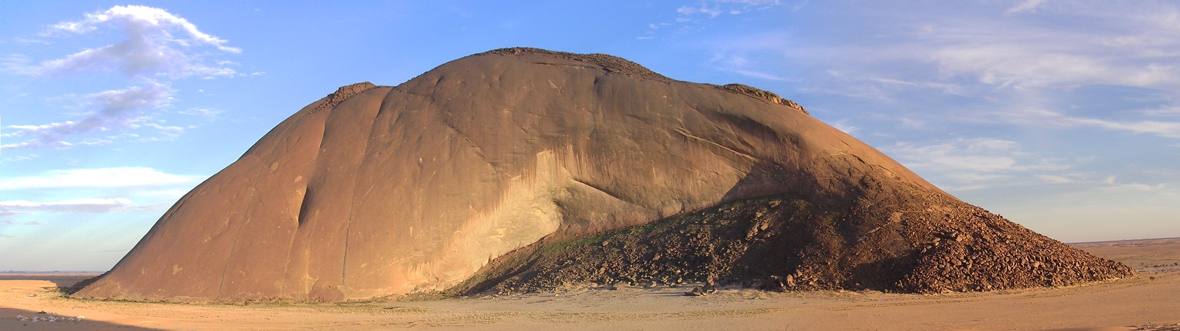 Ben Amera monolith in Mauritania in February 2006. This image is stitched of 3 single shots using Hugin.